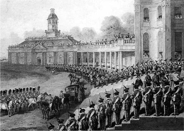 Visit of King George IV to Scotland